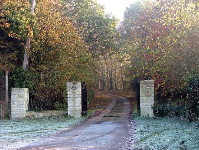 New Entrance to Grove Park. The old entrance to Grove Park is further up the track,There was a hall in the Park early last century